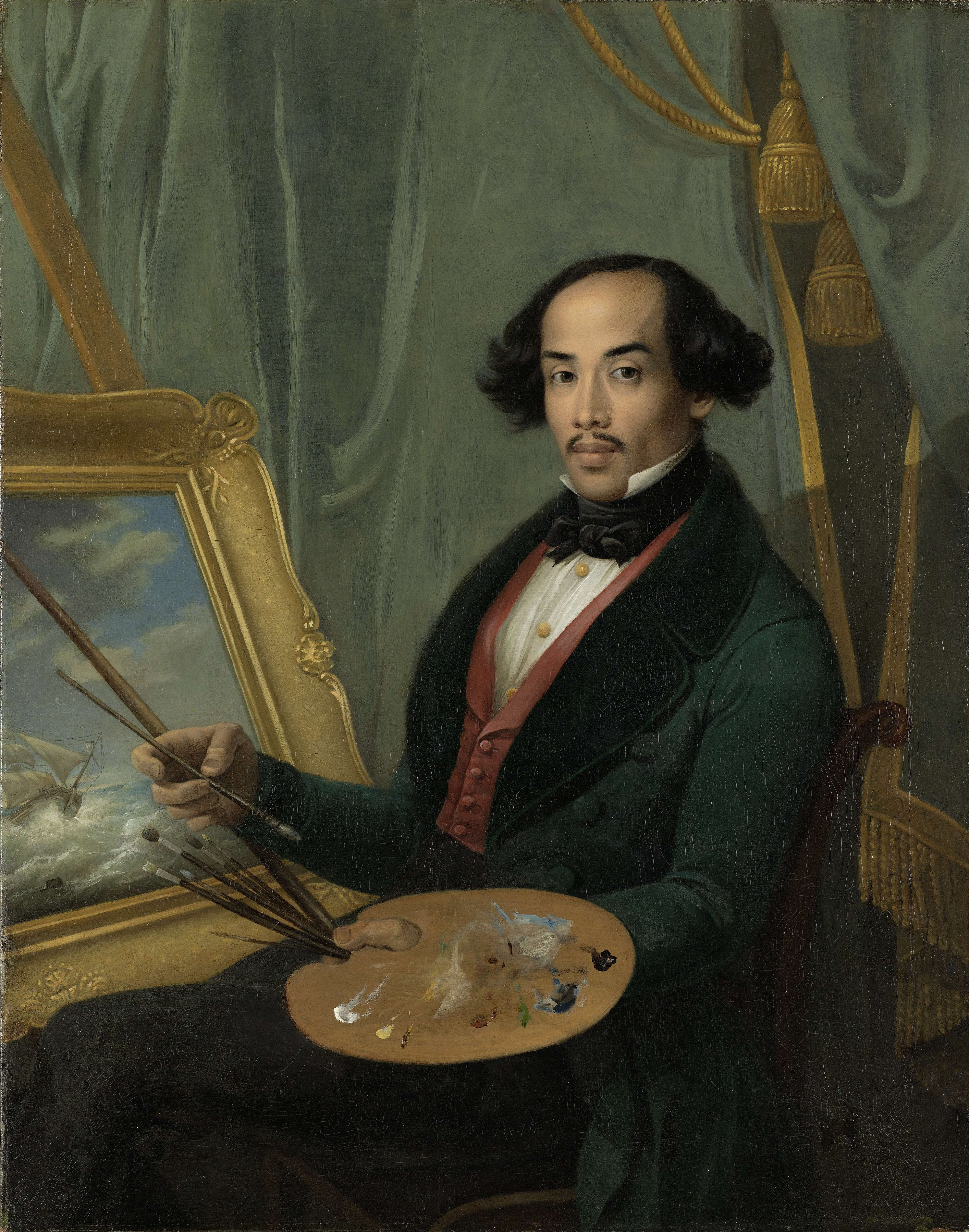 Portrait of the painter Raden Saleh, sitting in front of a marine painting, holding a palette in his left hand and a brush and a maulstick in his right.